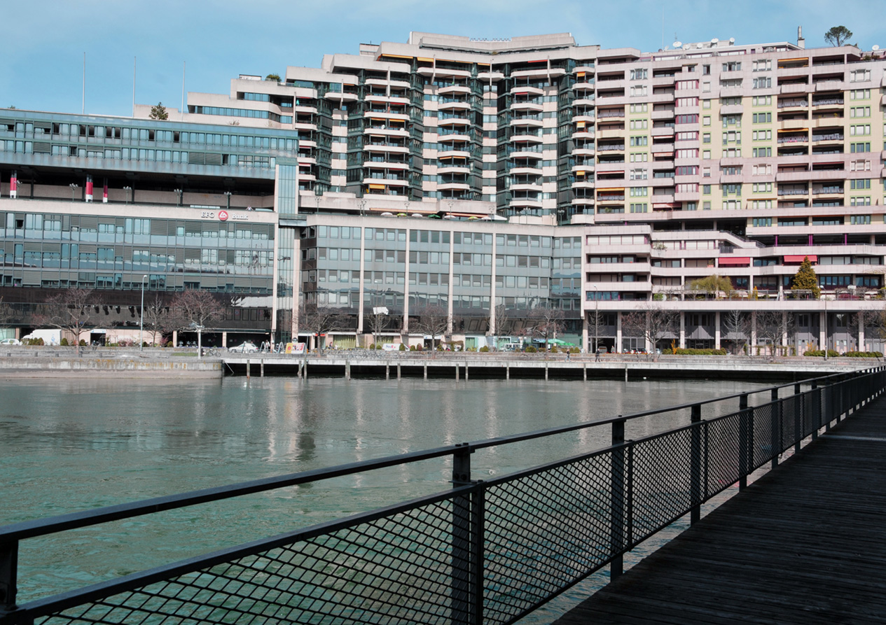 Picture of European University Geneva